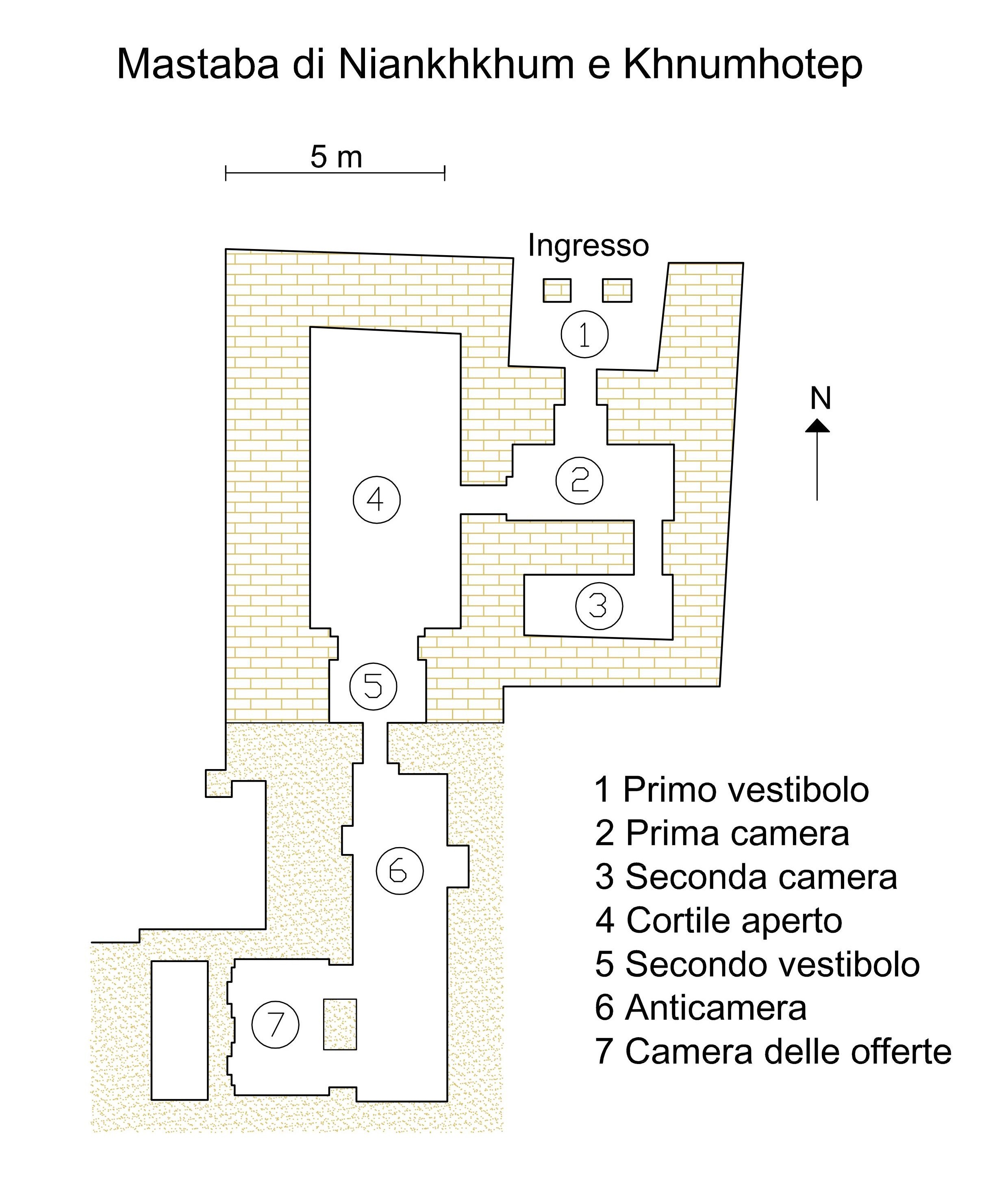 Map of the mastaba of Khnumhotep and Niankhkhnum in the necropolis of Saqquara. Italian version.